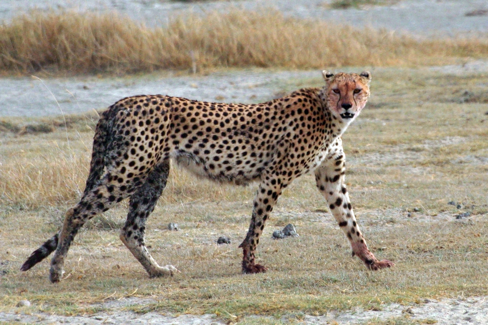 A Cheetah (Acinonyx jubatus raineyi) walking at Ngorongoro Crater, Tanzania.